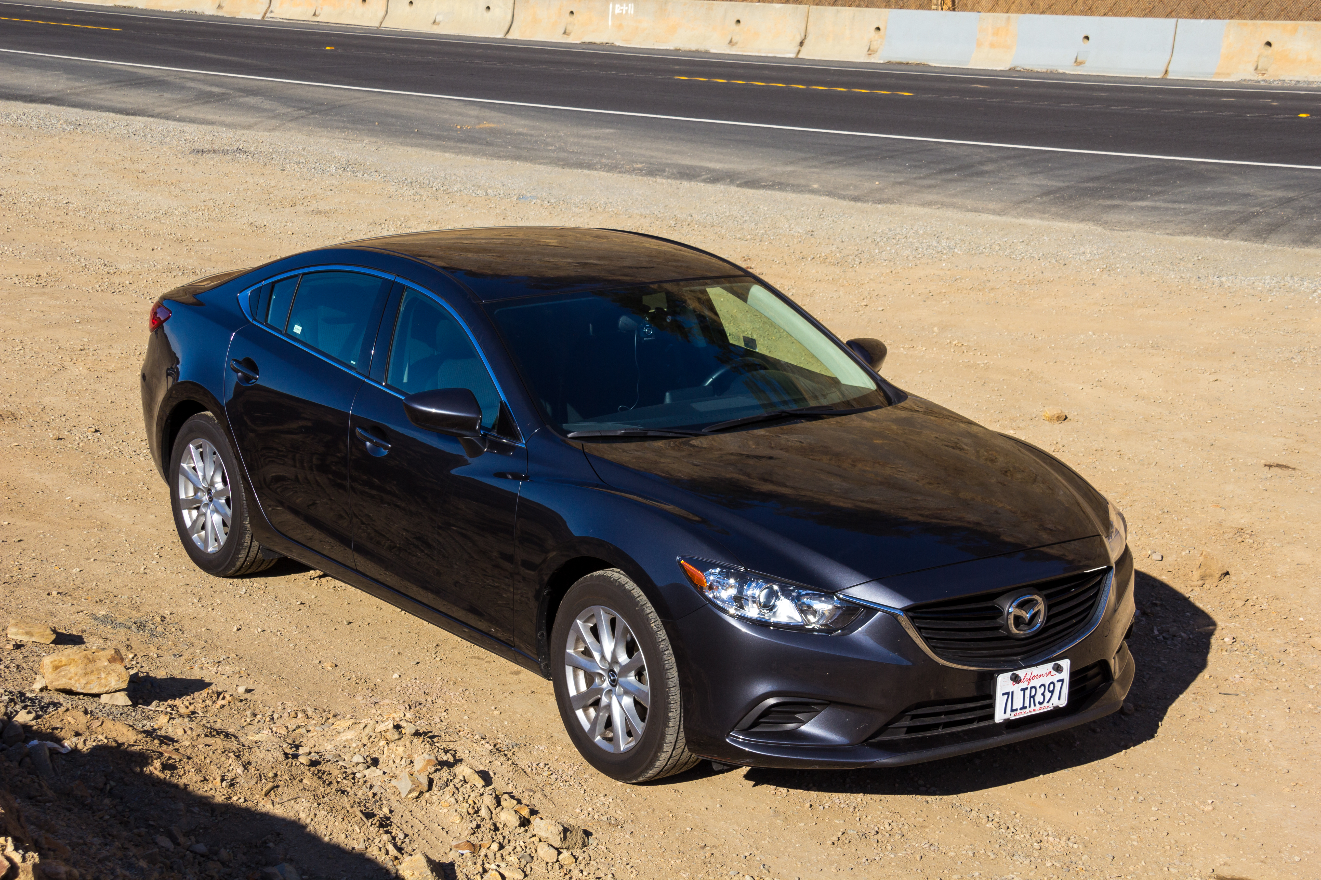 2016 Madza6 on Highway One, California, USA.